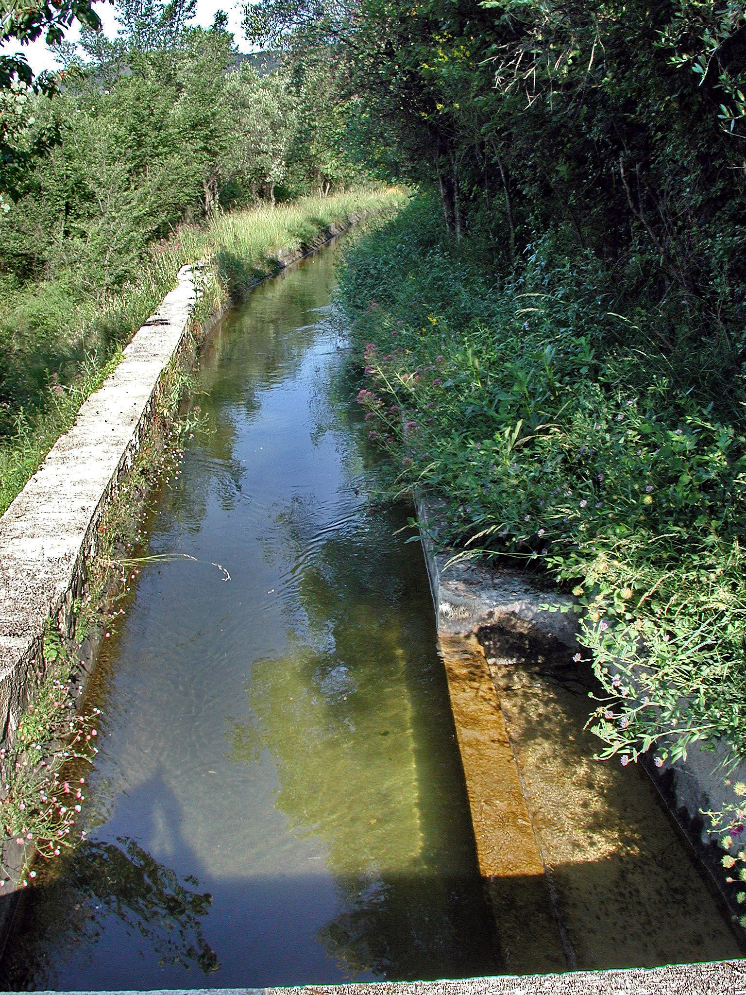 Siagne's canal aqueduct in Peymeinade (Var)